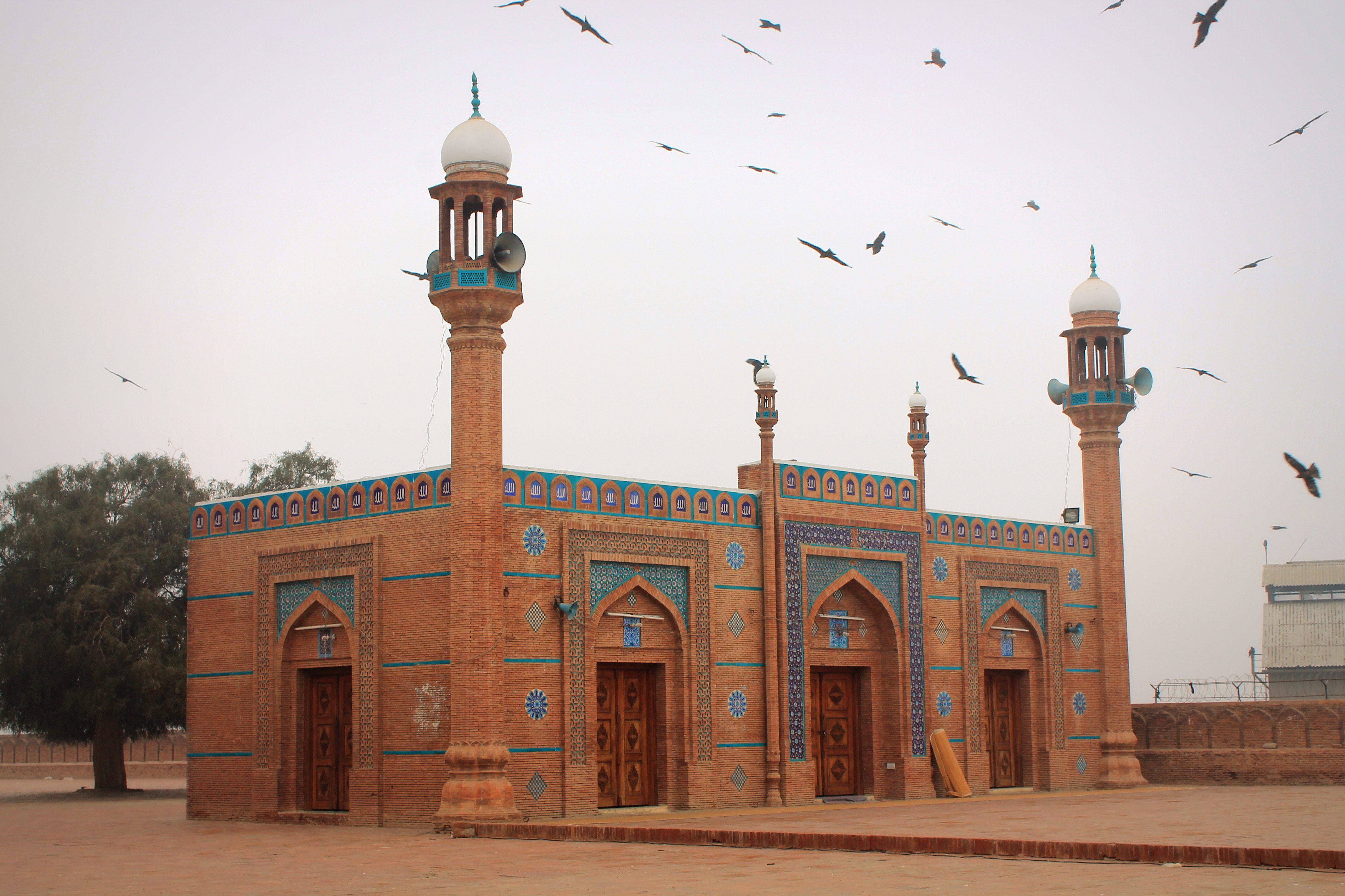 This is a part of the tomb of Shah Rukn-i-Alam located in Multan, Pakistan. He was an eminent Sufi saint who belonged to Suhrawardiyya Sufi order.